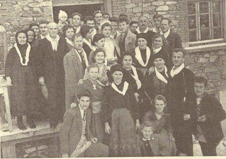 Pic taken 1900